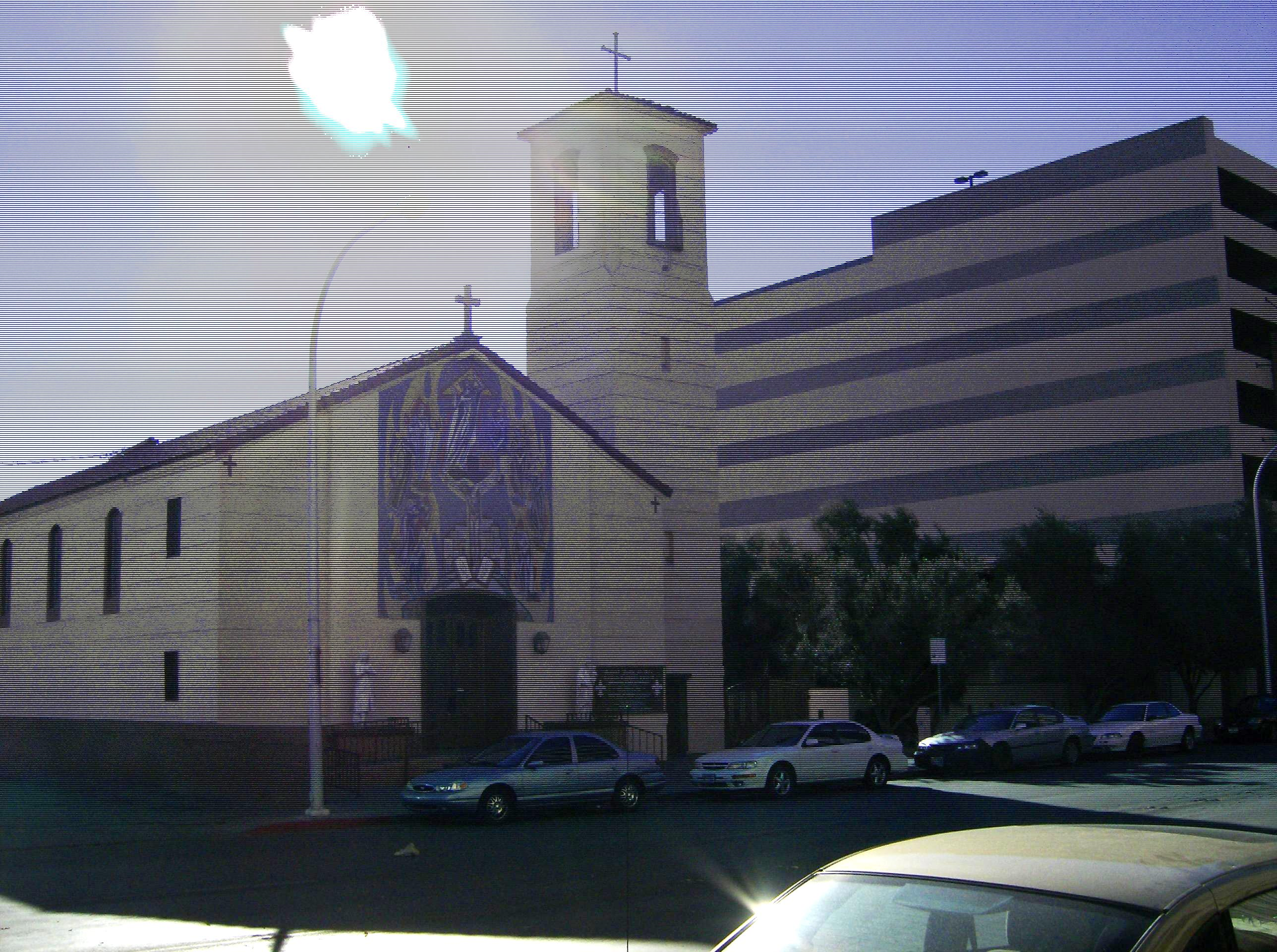 Las Vegas first Catholic Church founded in 1910 (according to Las Vegas Then and Now, Kim, Su Chu)